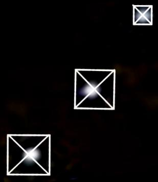 (Giza pyramids superimposed over the three stars of Orion's Belt)